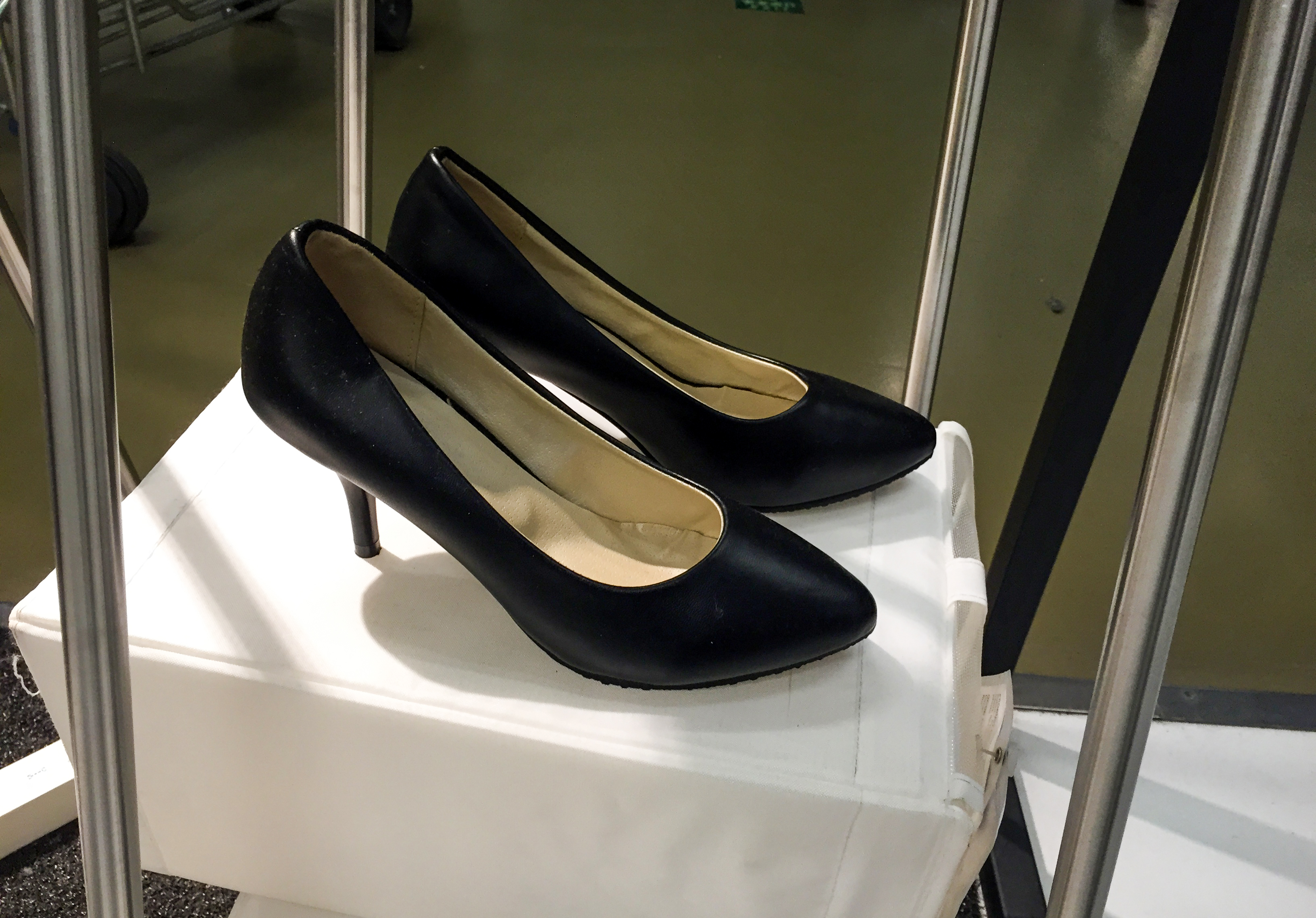 These shoes are just for creating the scene...